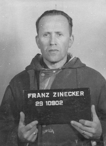 Franz Zinecker was SS-Obersturmführer and Labor service leader in the concentration Camp of Buchenwald. In the Buchenwald Camp Trial (part of the Dachau Trials) he was sentenced to lifetime imprisonment